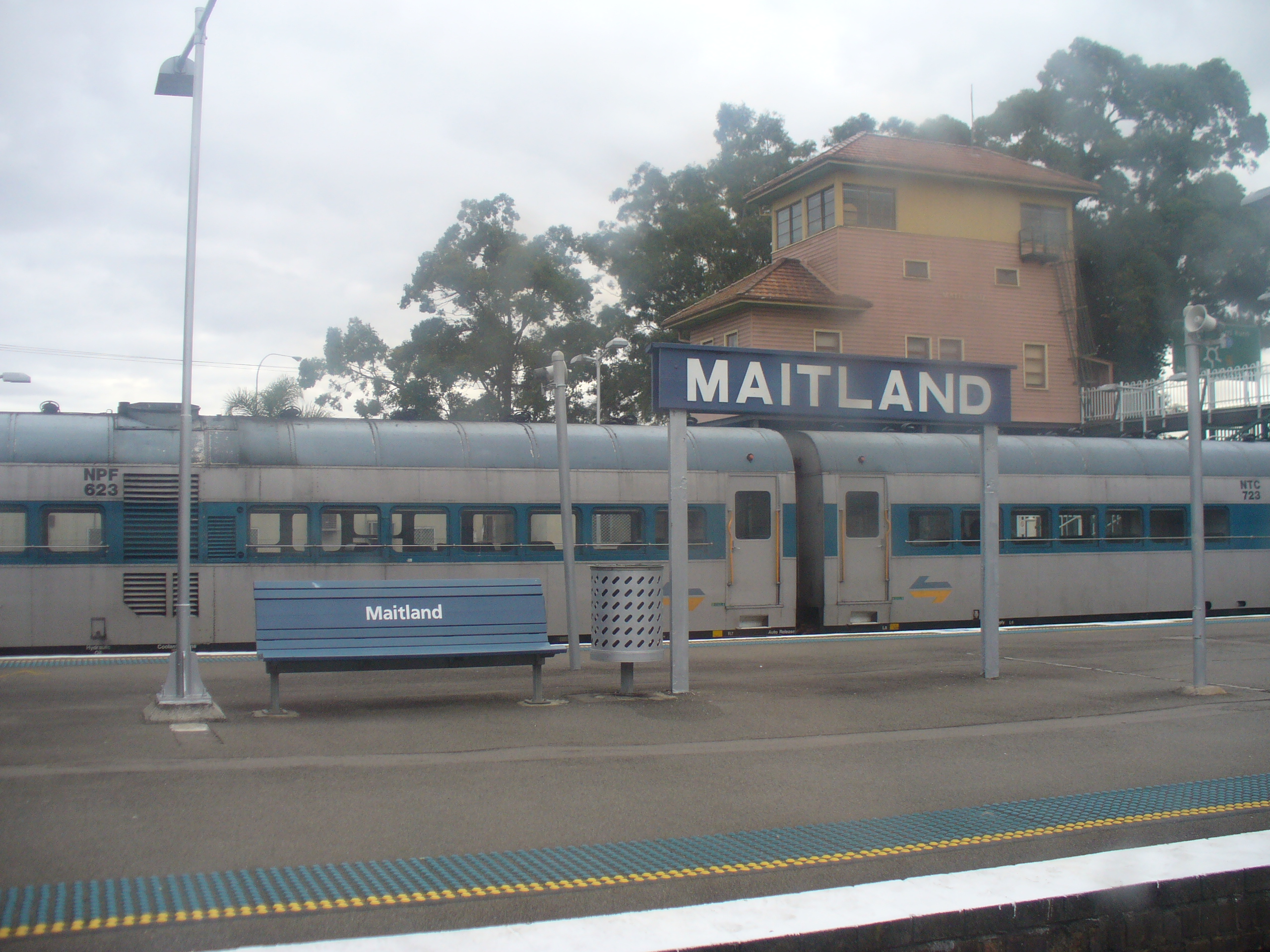 Maitland railway station, New South Wales, Australia - platforms 2, 3, and 4